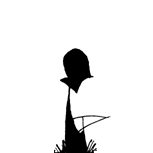 This is a pic sent to me at my request by Elliot G. Garbauskas for the purpose of use in the Buttercup Festival. In his email, he explicitly released it into the public domain.